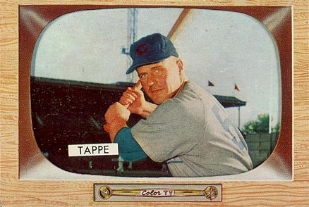 1955 Bowman baseball card of Elvin Tappe of the Chicago Cubs #51. PD-not-renewed.